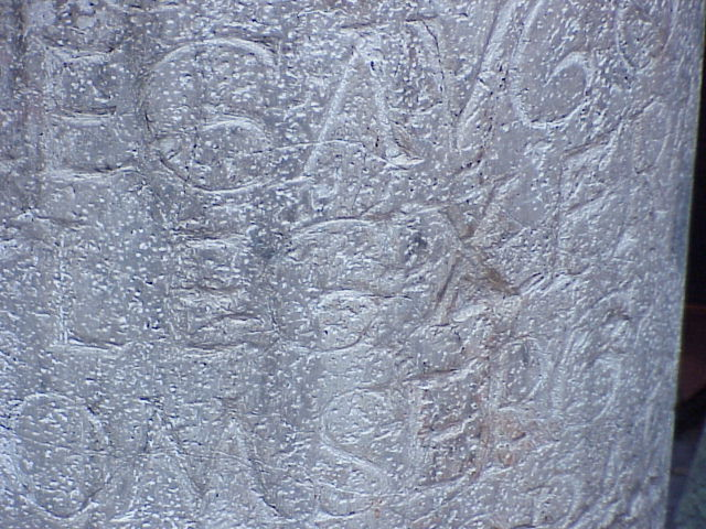 Inscription of 10th Roman legion (Legio X fretensis) in Jerusalem.